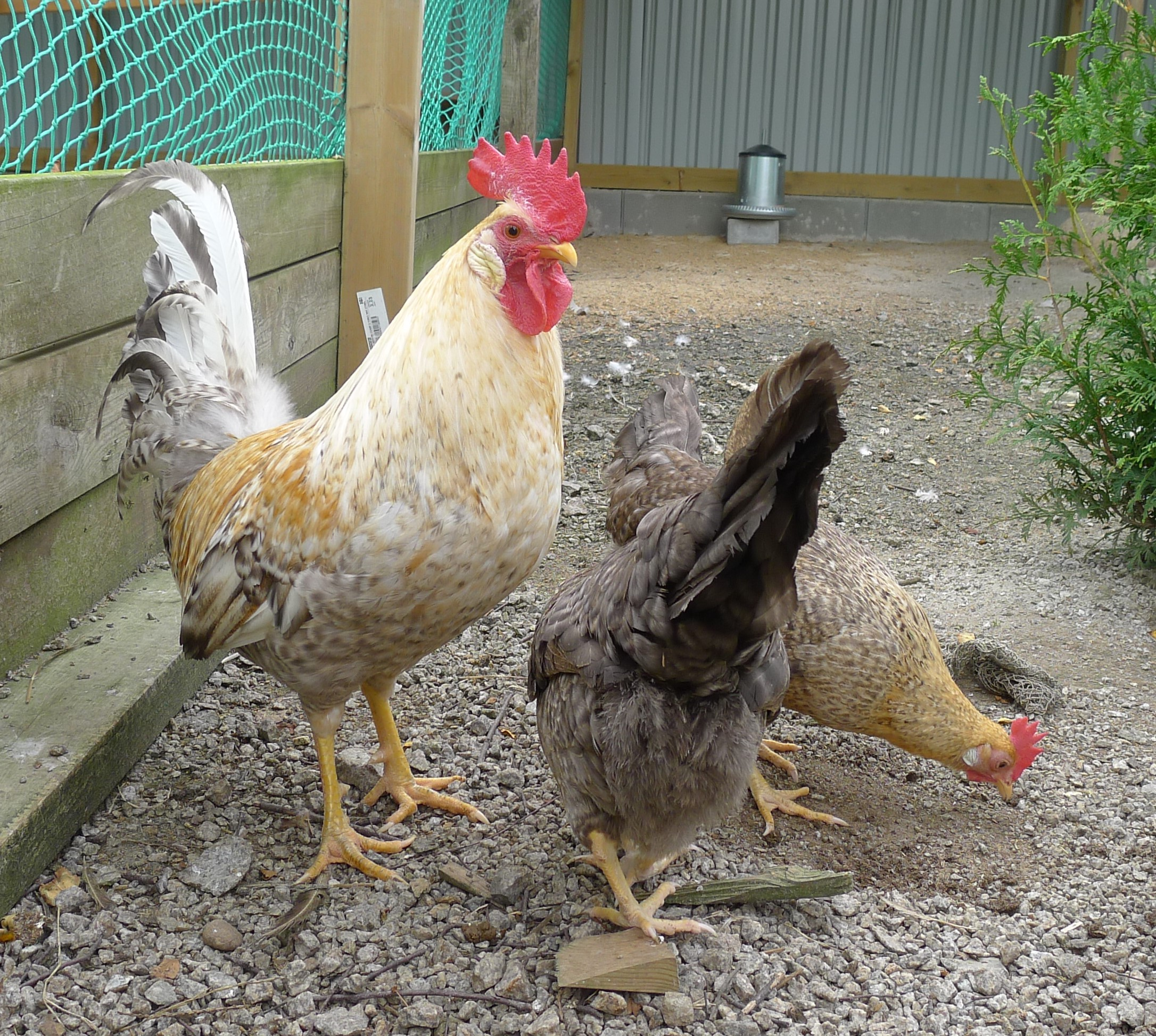 Norwegian Jærhøne rooster and two hens.